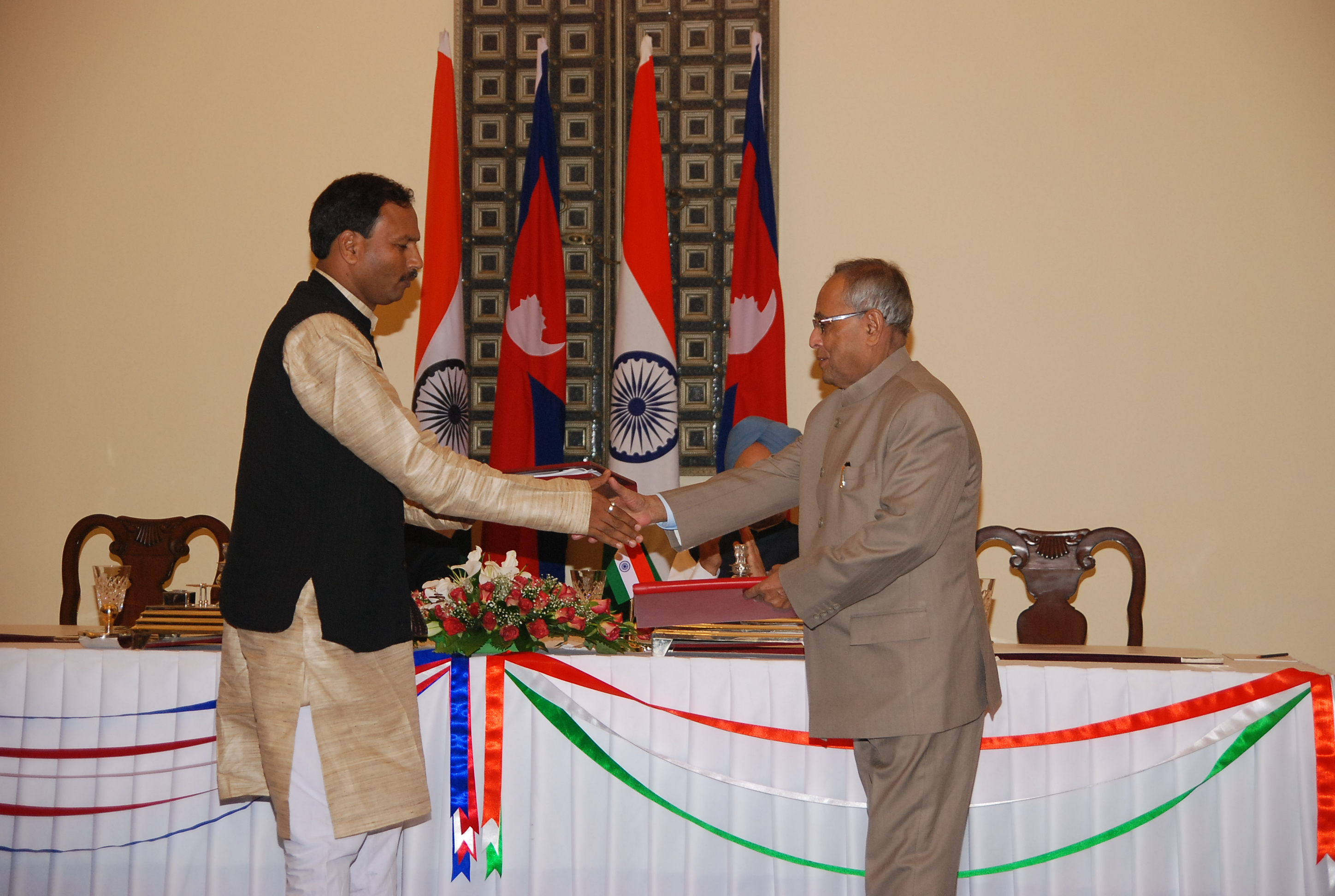 Minster for Industry Anil Kumar Jha and Indian Finance Minister Pranab Mukherjee signed the agreement at Hyderabad House, the government venue for high-level negotiations in India. Prime Minister Baburam Bhattarai and his counterpart Manmohan Singh were present at the signing.